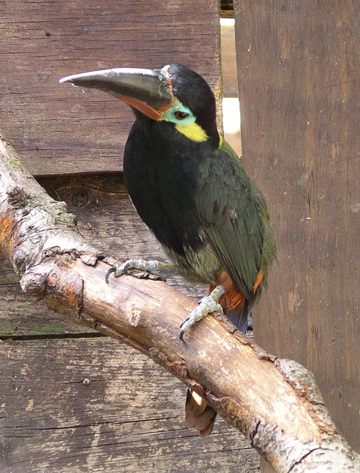 photo of a Guianan Toucanet Selenidera culik housed in Tropical Birdland, Leicestershire, England.